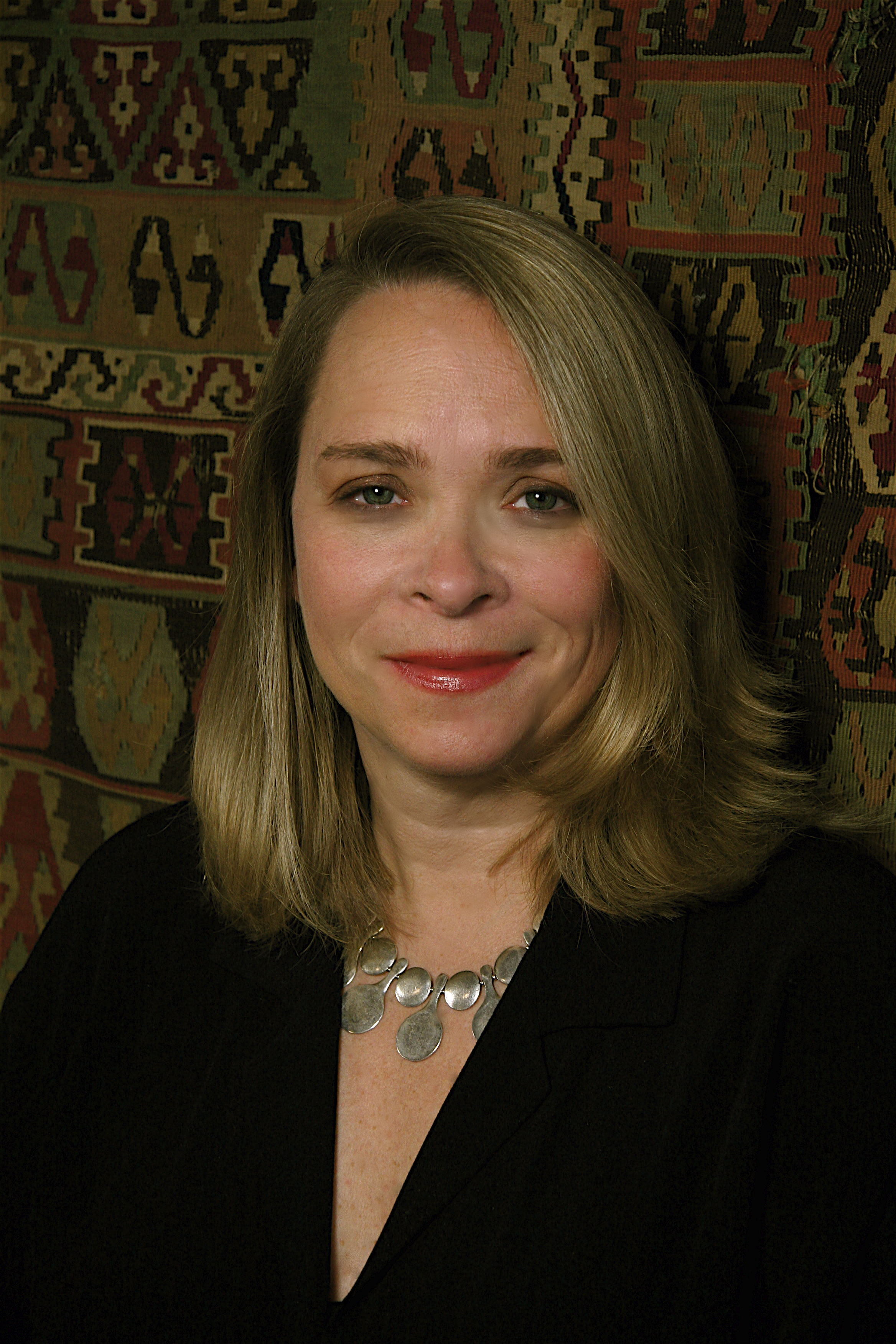 Sasha Anawalt headshot